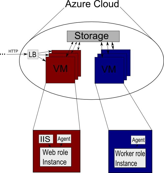 Diagram explaining the Windows Azure structure. LB = Load Balancer, VM = Virtual Machine.